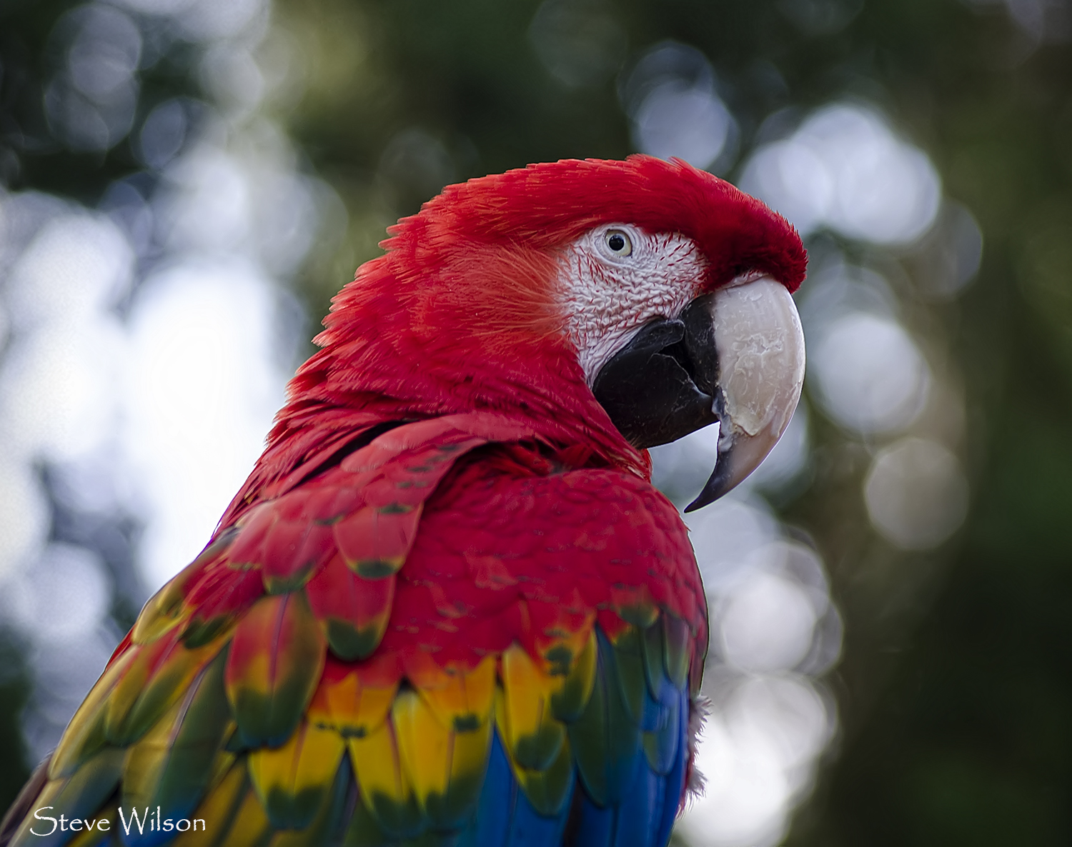 Beautiful and very noisy Macaw at The Welsh Mountain Zoo in Colwyn Bay, North Wales